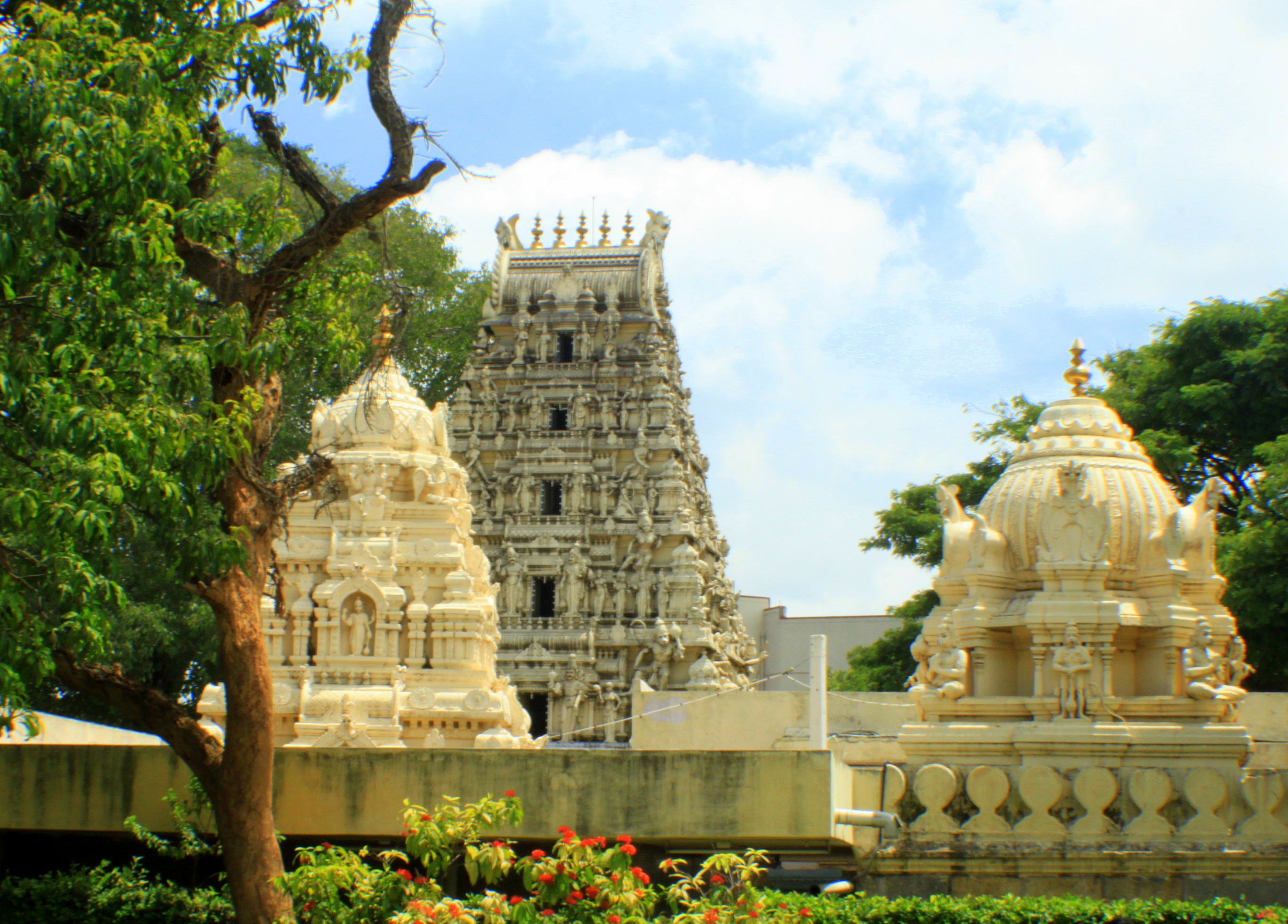 Venkataramana Swamy Temple, K.R Market, Bangalore